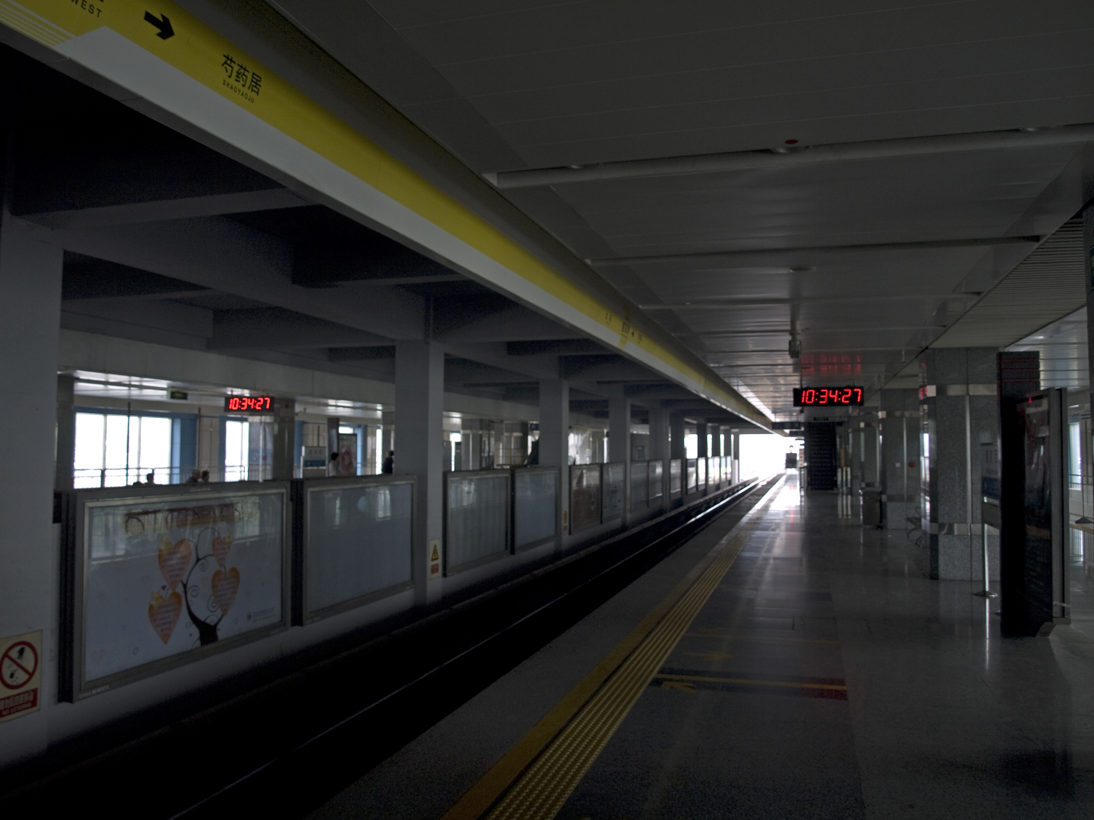 Wangjing West station, Beijing Subway